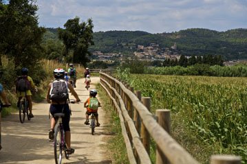 Tram de la via verda del Tren Petit, entre Palamós i Palafrugell. Font: Xevi F. Güell - Consorci de les Vies Verdes de Girona.